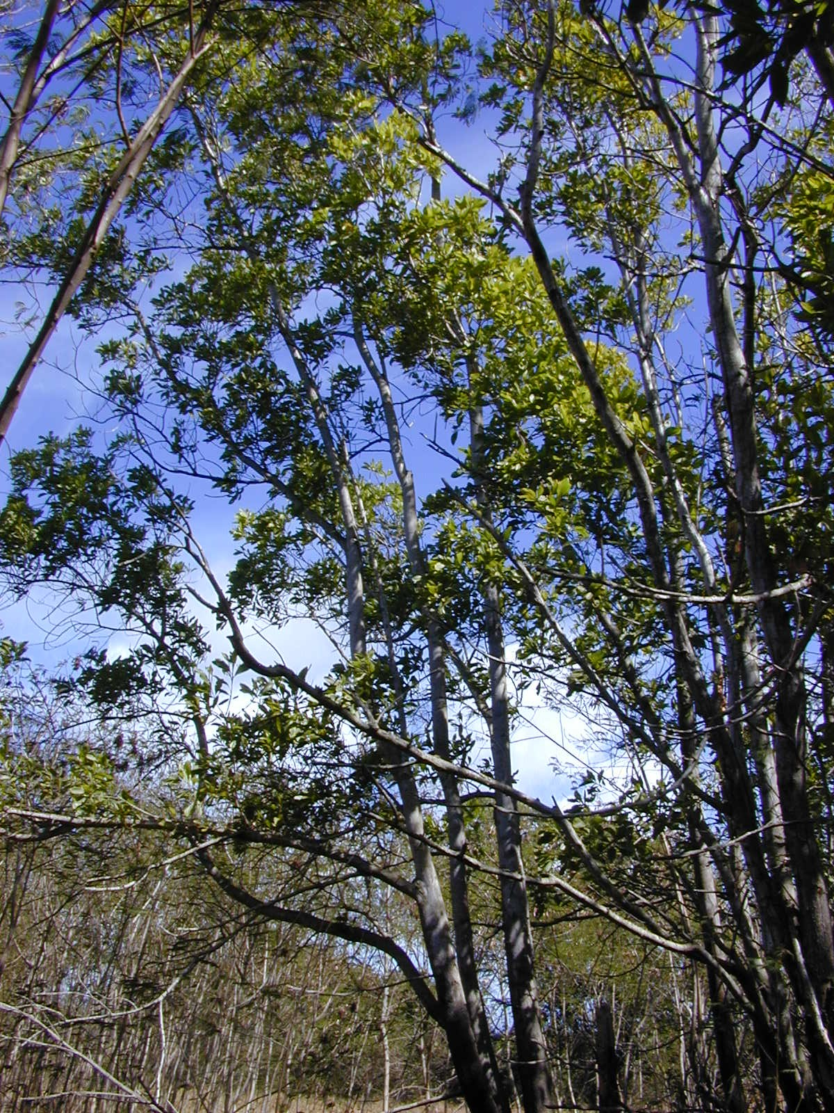 Acacia mangium (habit). Location: Maui, Hamakuapoko